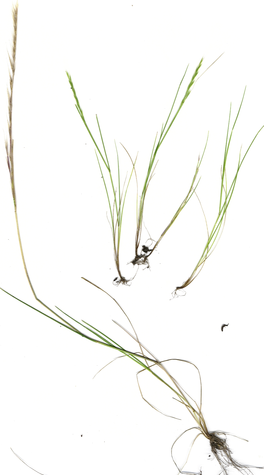 Vulpia myuros (plants). Location: Maui, Waikapu